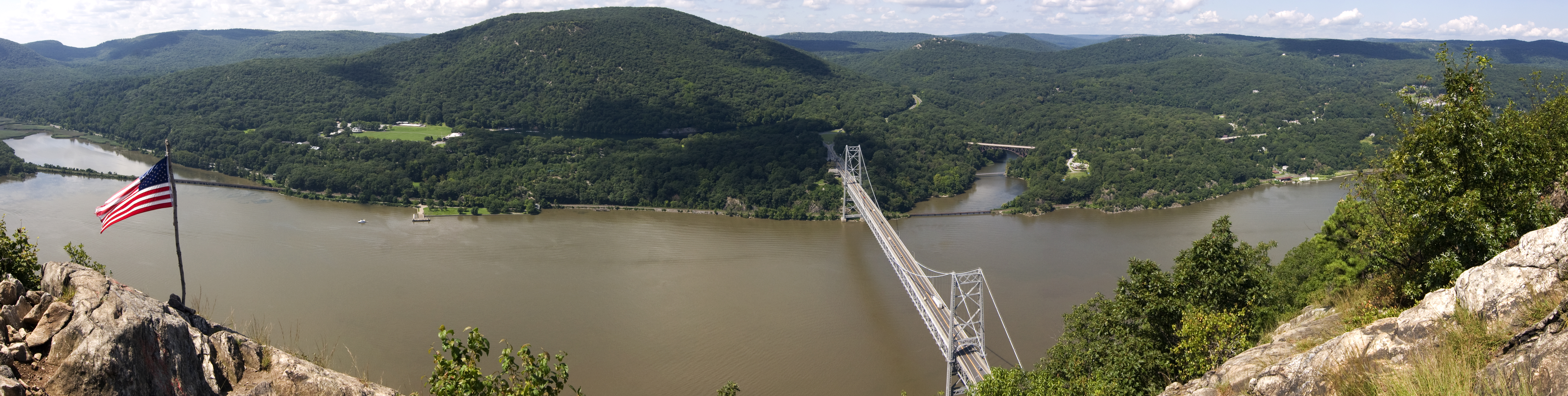 Panoramic view of the Bear Mountain Bridge, taken from the vantage of Anthony's Nose.